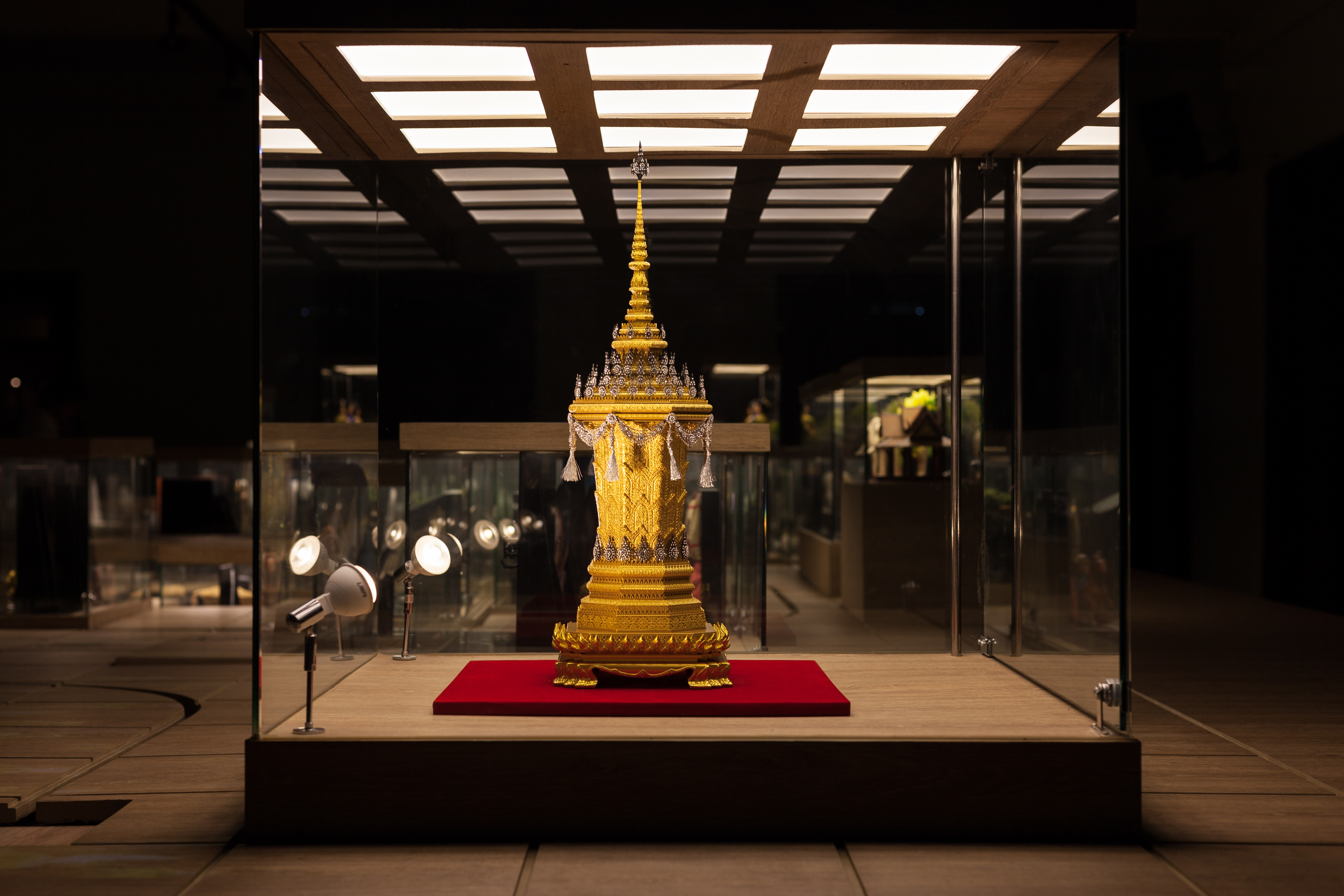 Interactive display showing miniature of the Thai Royal Gold Funerary Urn at Museum Siam, Bangkok.